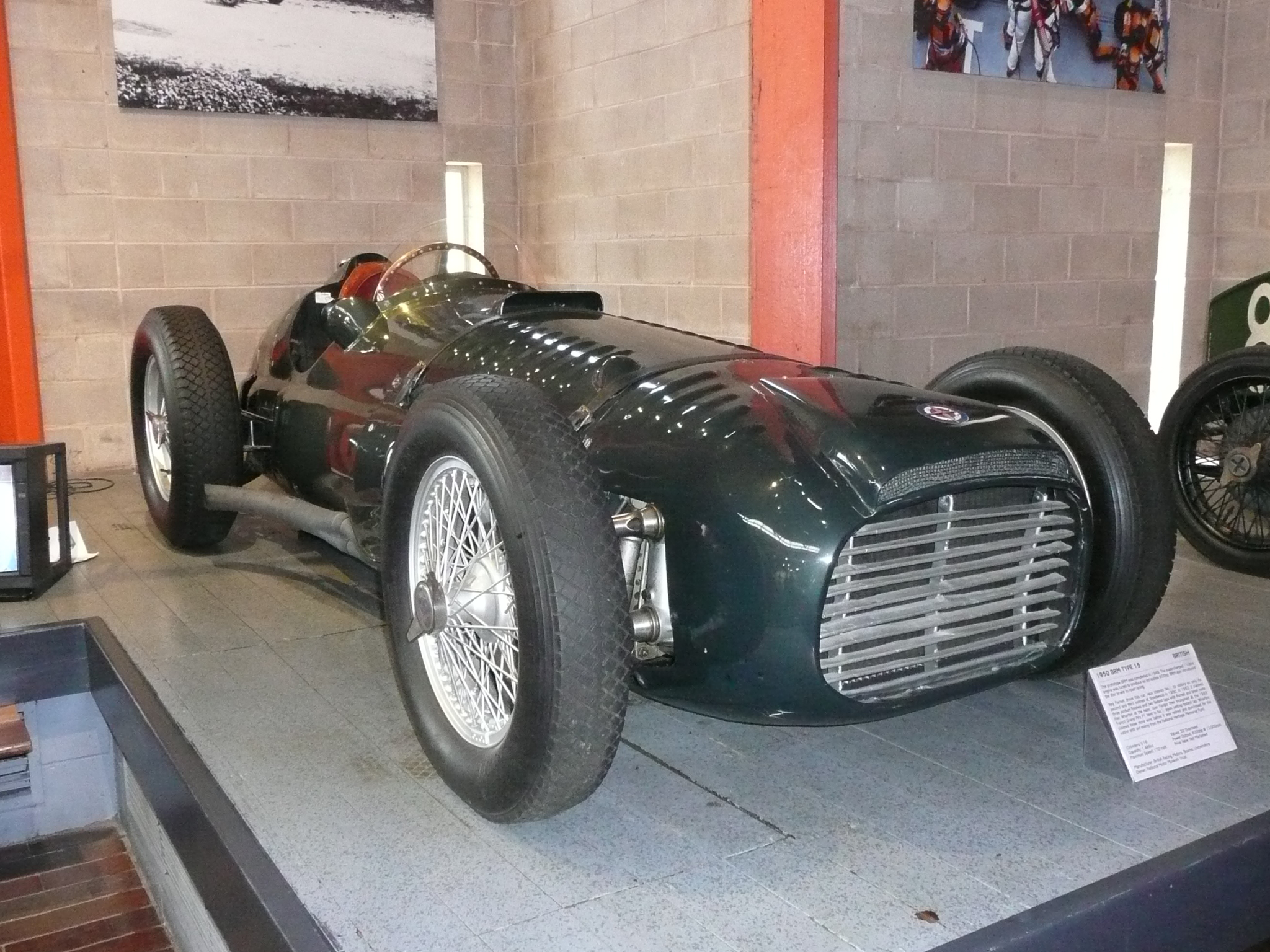 1950 BRM Type 15, National Motor Museum in Beaulieu.